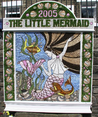 Hayfield Well Dressing Bank Street Well in Hayfield, decorated for the 2005 Well Dressing Festival.